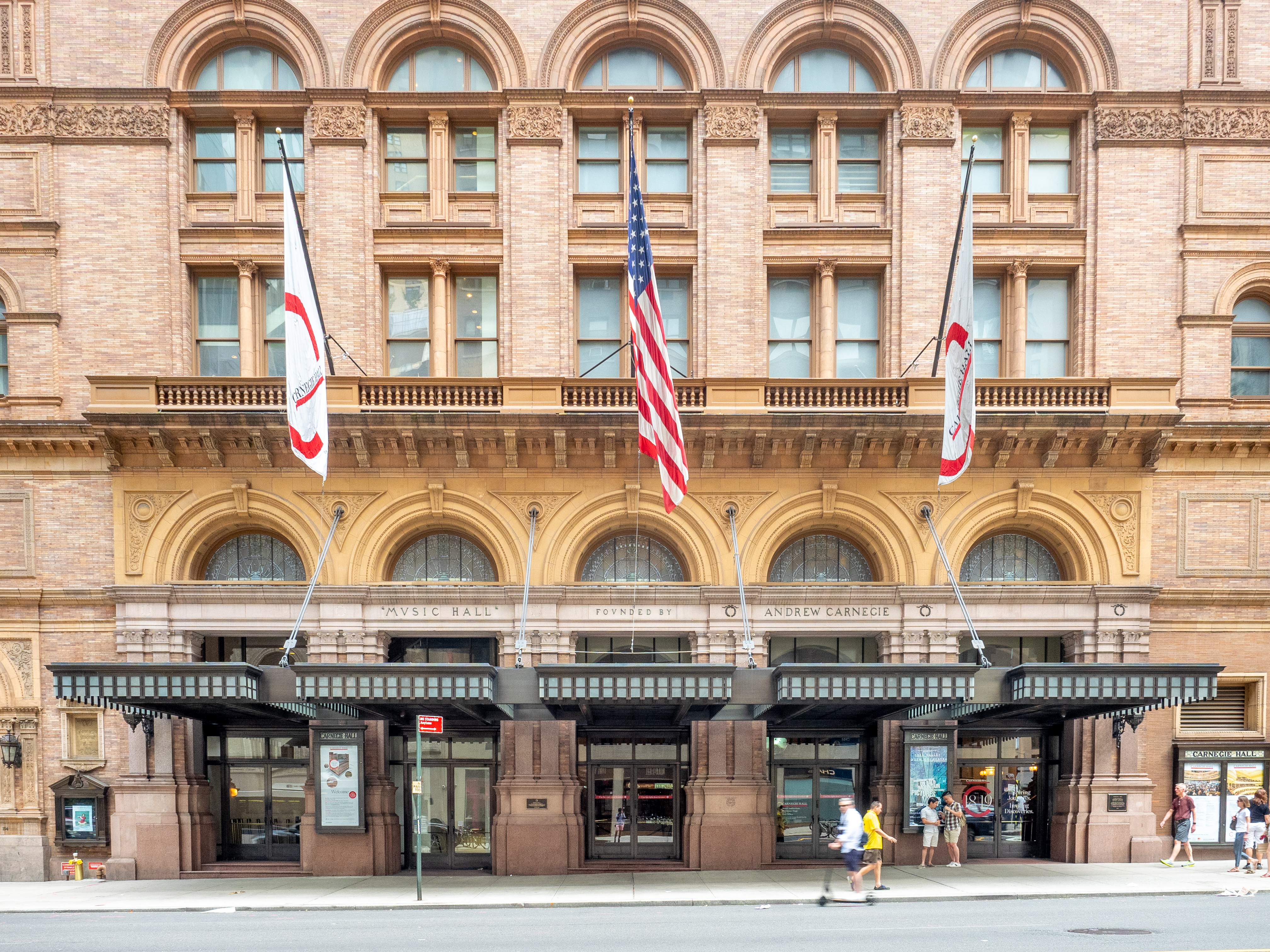 Midtown Manhattan, NYC